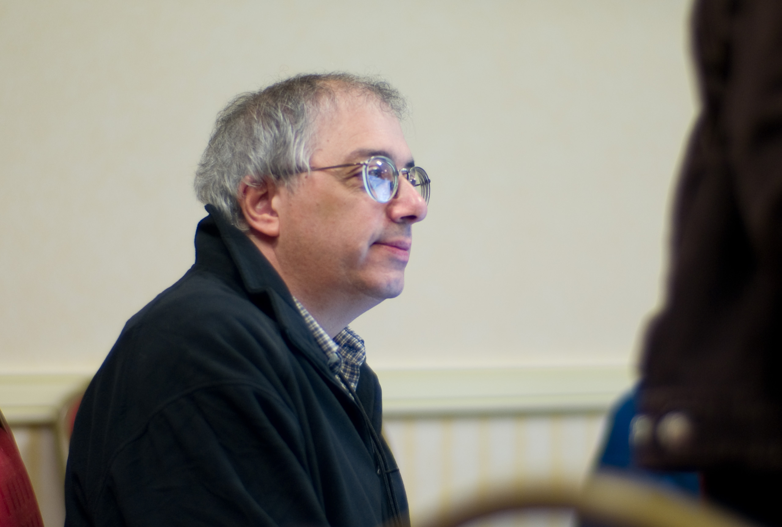 Steven Levy